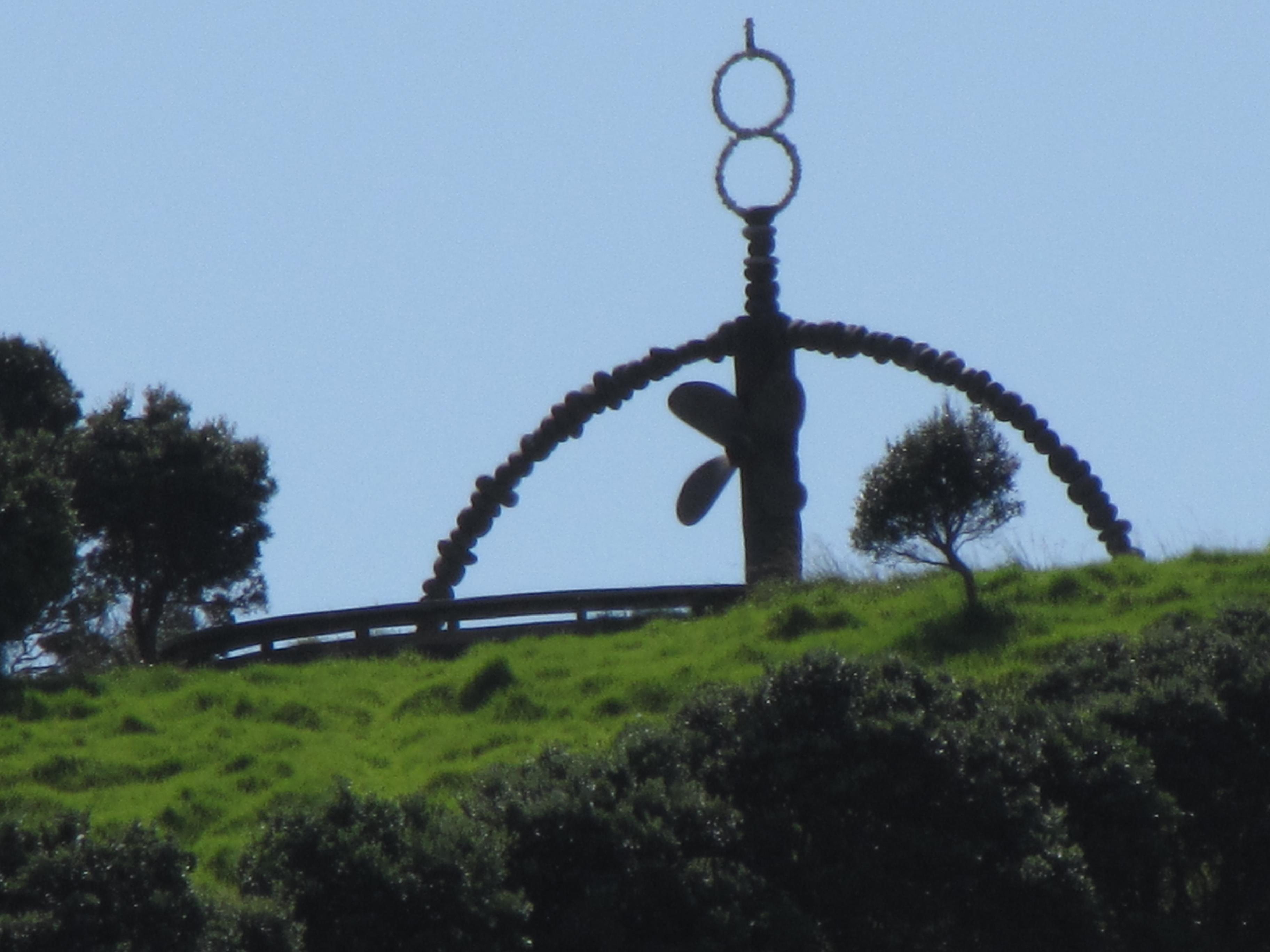 Matauri Bay, Northland, New Zealand. Memorial to the Rainbow Warrior.